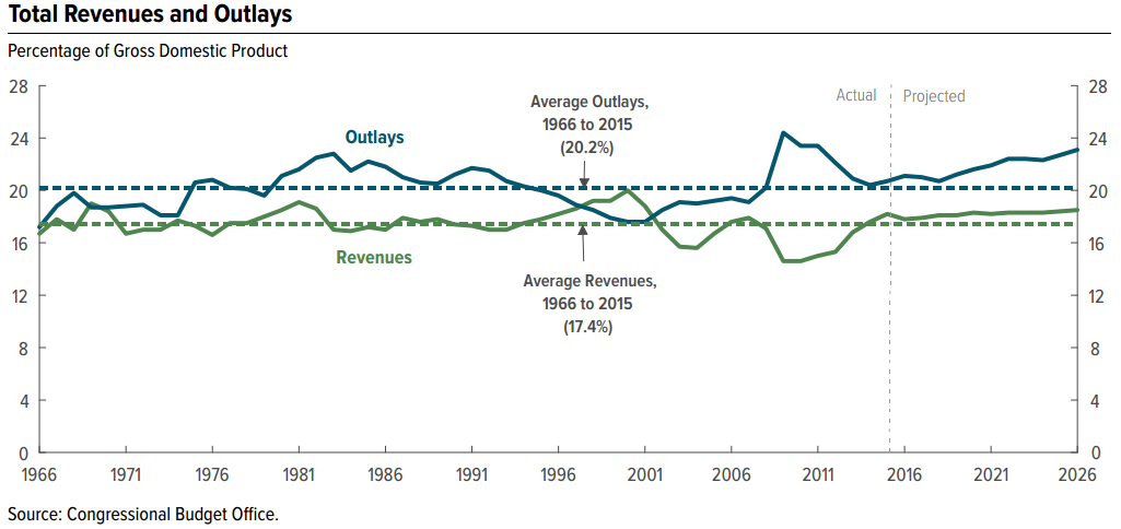 Total revenues and outlays as a percent of GDP, from "The Budget and Economic Outlook: 2016 to 2026"